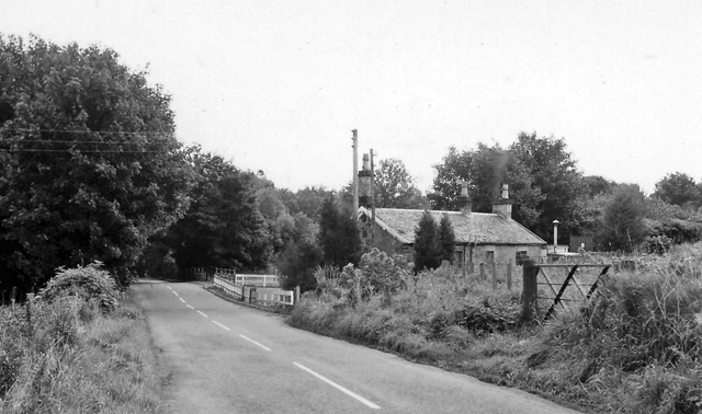 Blanefield Station (remains). View SW, Lenzie Junction and Glasgow left, Aberfoyle right; ex-NBR (Glasgow) - Lenzie Jct. - Aberfoyle line. Station and line closed to passengers 1/10/51, goods 5/10/59. See also NS5289 : Balfron Station (remains).